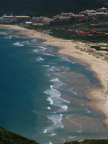 Praia do Santinho - Santinho beach - Florianópolis, Island and State of Santa Catarina - Brazil. View from the treck in the top of the mount